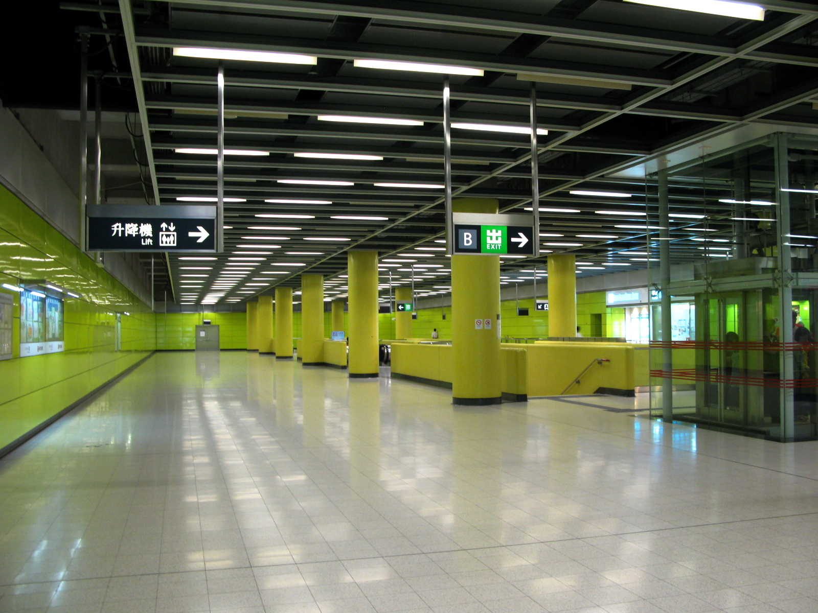 MTR Tiu Keng Leng station concourse